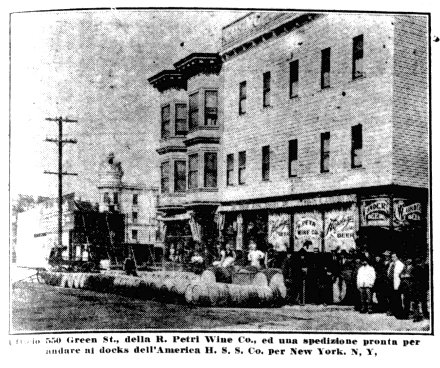 Warehouse storefront of the R. Petri Wine Company. Green Street.